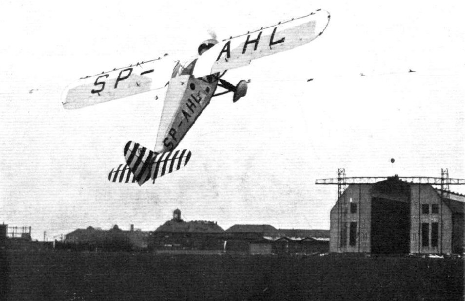 Polish RWD 6 of Tadeusz Karpiński during short take-off trial in the Challenge 1932 contest.